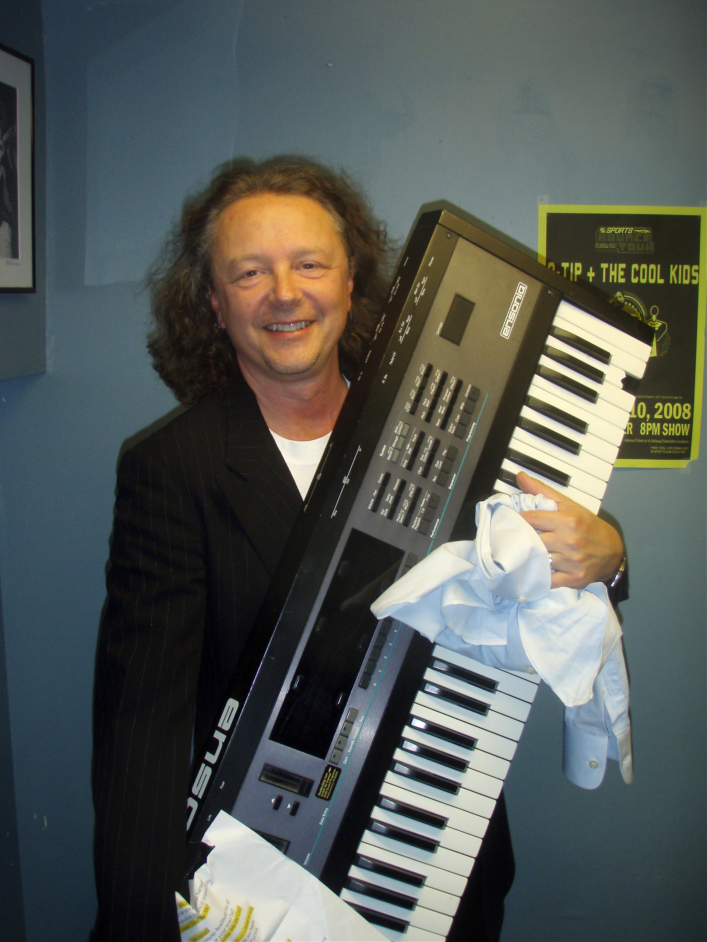 Portland, Oregon musician Michael Allen Harrison. Taken at Candidates Gone Wild at the Roseland Theater. Ensoniq VFX-SD